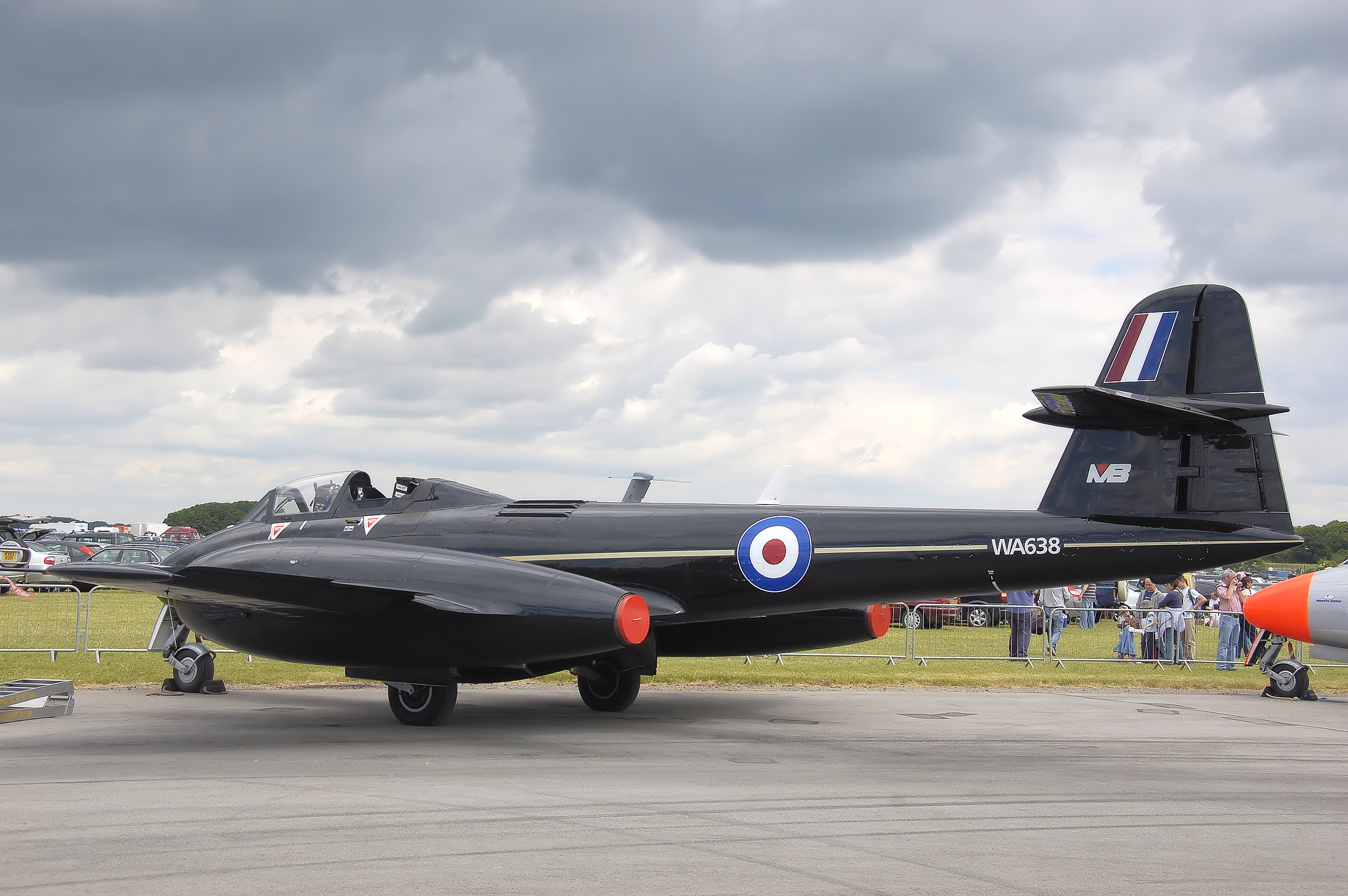 Gloster Meteor WA638 Model T7(modified), an ejection-seat test aircraft owned by Martin Baker Company. On static display at the 2008 Air Day, Kemble Airport, Gloucestershire, England. Built 1949. There are modifications to the rear cockpit where the ejection seat is fitted (in particular, no canopy). Note:- what appears to be a grey “aerial” on top of the Meteor is in fact the tail of an RAF C-17 in the distance.